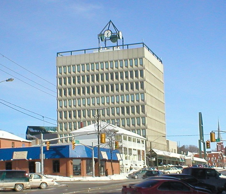 Barrie City Hall in Barrie, Ontario. Barrie, ON